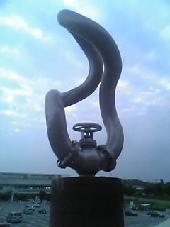 Object at the main gate of Osaka Expo Stadium 70 Building